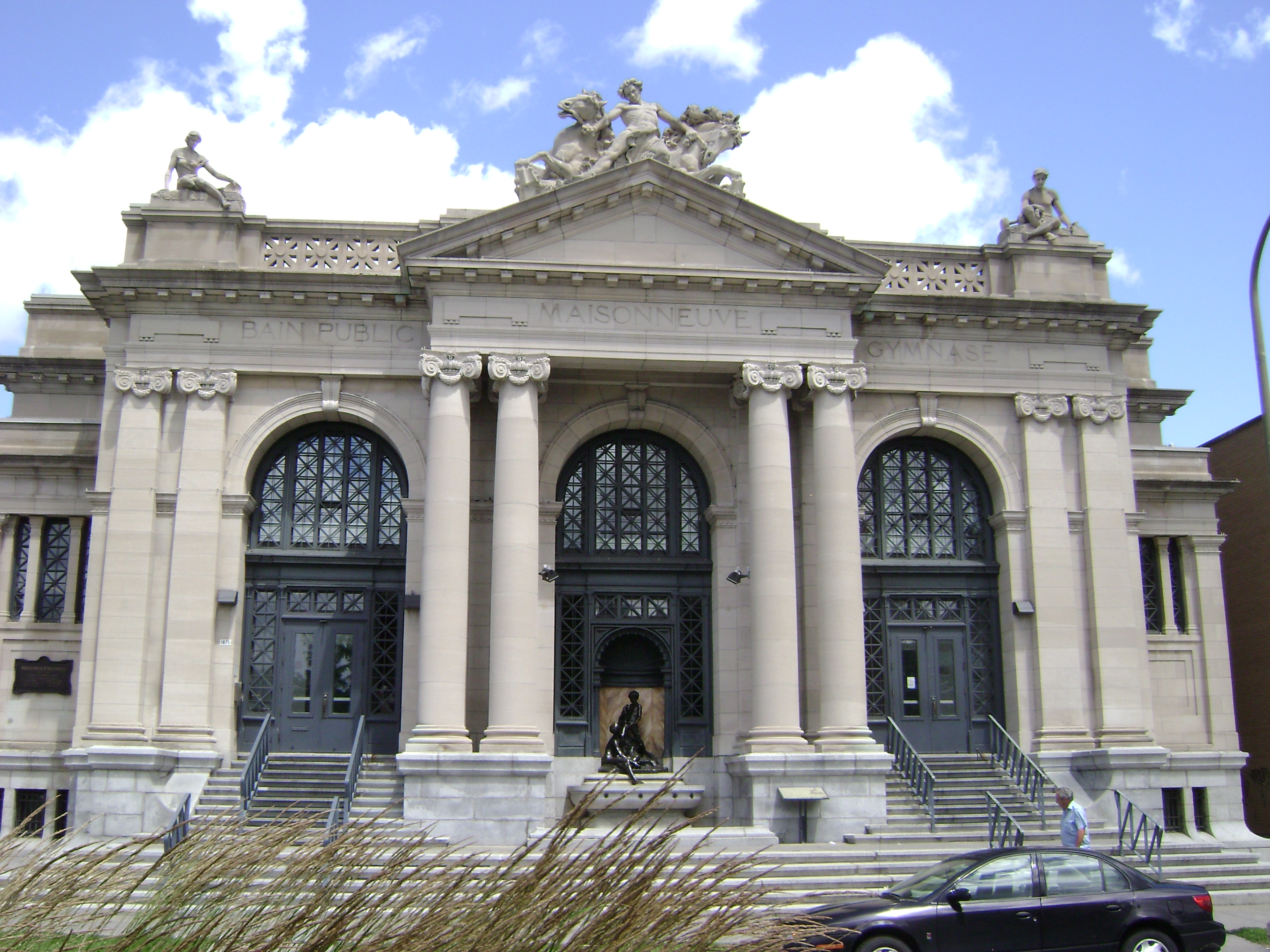 The Maisonneuve Public Bath (1916), 1875-1877, Morgan Boulevard, Borough Mercier-Hochelaga-Maisonneuve, Montreal, Quebec, Canada.